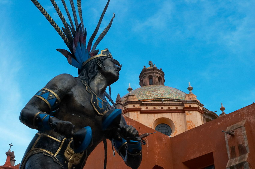 Statue of a Chichimeca warrior in Santiago de Querétaro. Within the Municipality of Querétaro, Querétaro state, México.